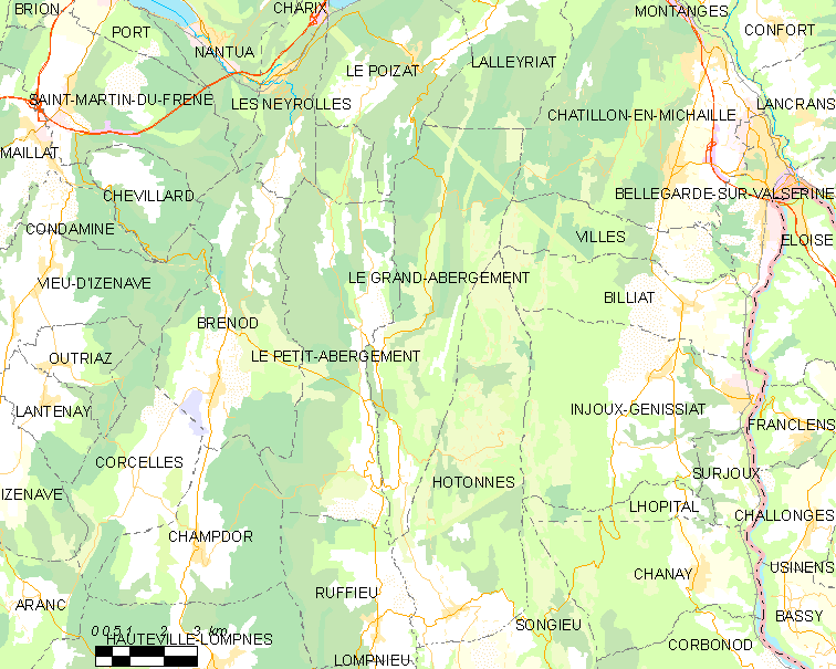 Map of French commune: Le Grand-Abergement Map commune FR insee code 01176.png